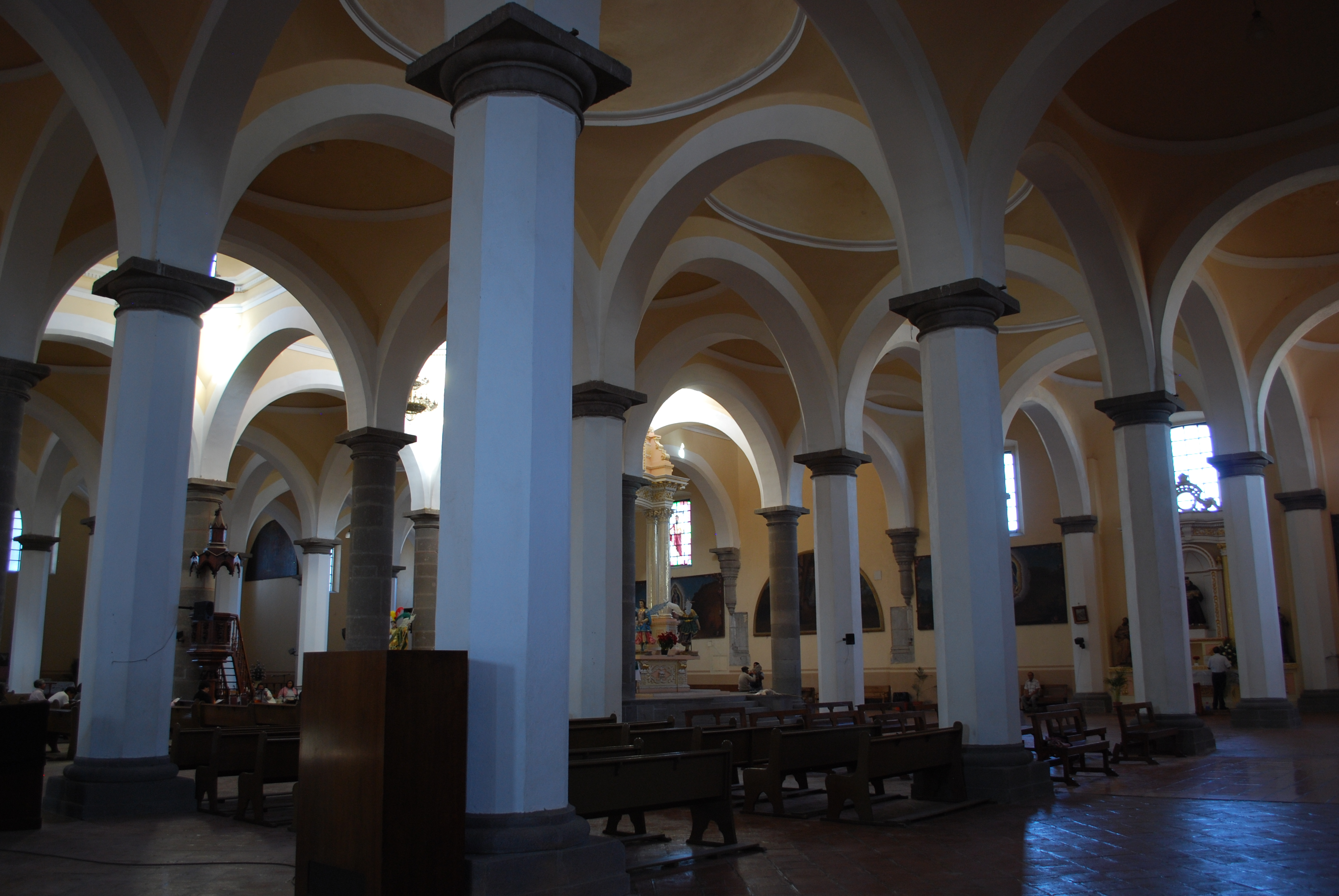 Looking into the center from the north or left corner of the Capilla Real at the former monastery of San Gabriel, Cholula, Puebla, Mexico